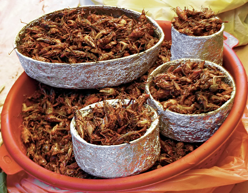 A basket of Chapulines (Roasted Cricket) in a market in Tepoztlán, Mexico, December 2006